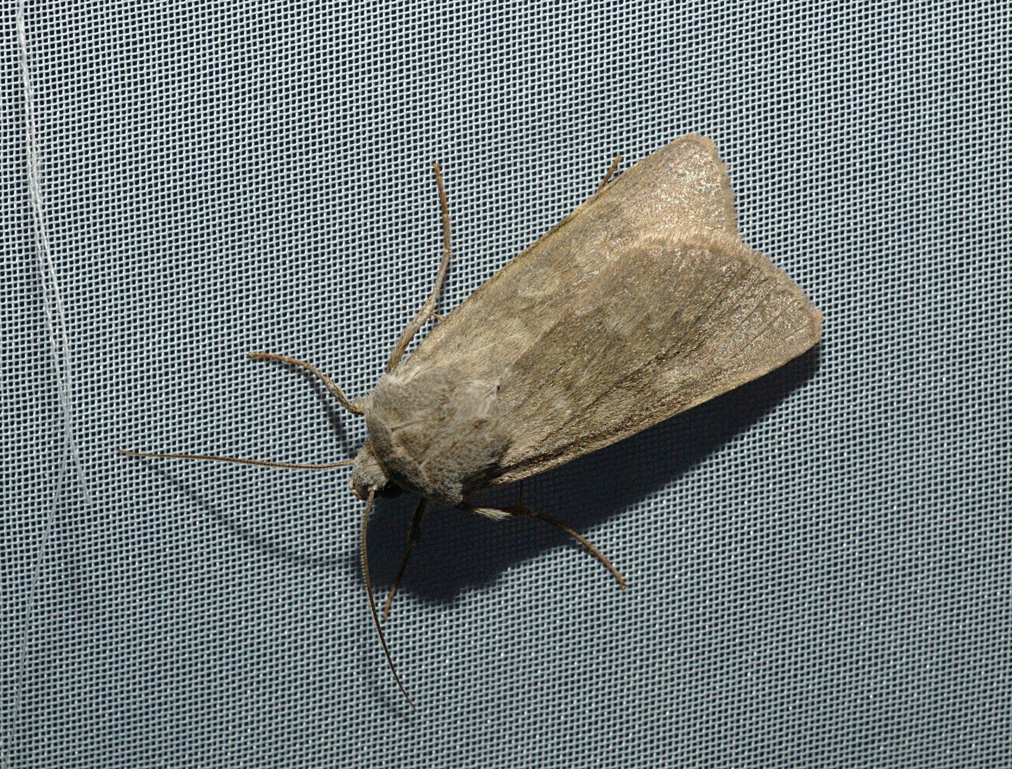 Rhyacia helvetina Location: Großer Buchstein, Gesäuse National Park, Styria, Austria 8 Makro f/13 Film / Speed: ISO 1000 Comment: identification: Heinz Habeler